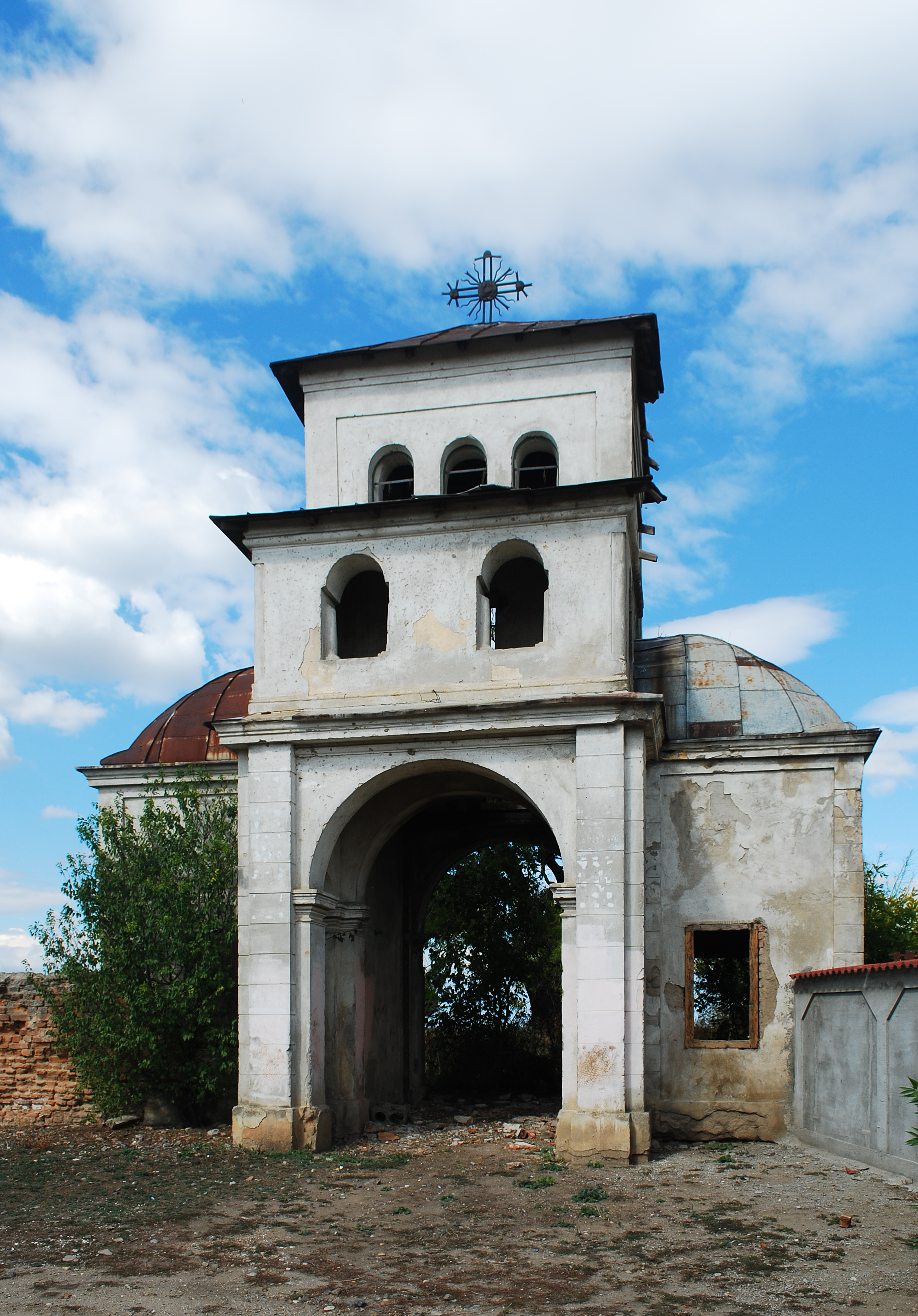 Former bell tower of the (ruined) Saint Andrew's church in Fundeni, Călăraşi County, Romania